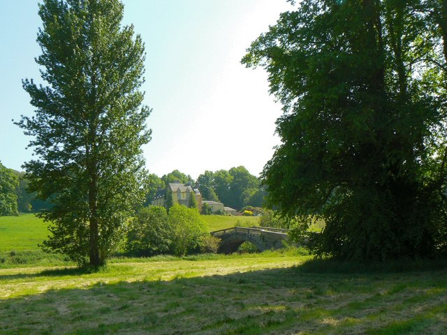 Bridge to Bargany Bridge over the Water of Girvan with Bargany House in the background.